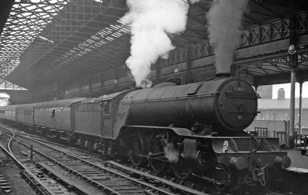 Leeds Central Station, with a V2 on empty stock. View westward from the buffer-stops, outward at the ex-Great Northern terminus towards Wakefield, Doncaster and Bradford. The station was closed on 1/5/67, when all services were concentrated at Leeds City Station. The V2 2-6-2 is No. 60832.